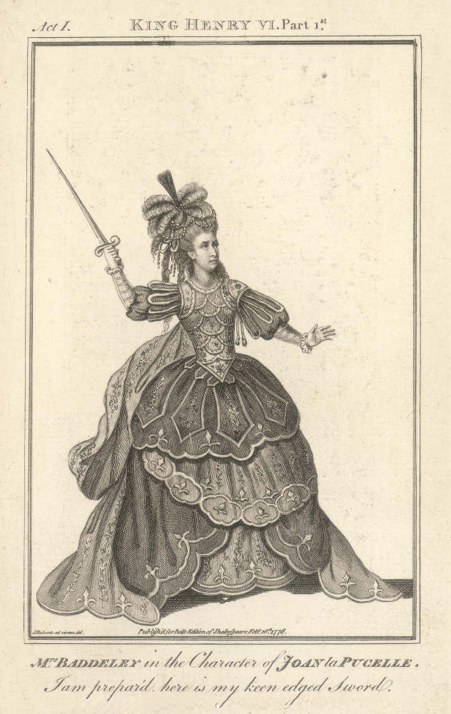 Sophia_Baddeley (1745-1786), English actress & courtesan in the role of Joan La Pucelle from Henry VI part 1.